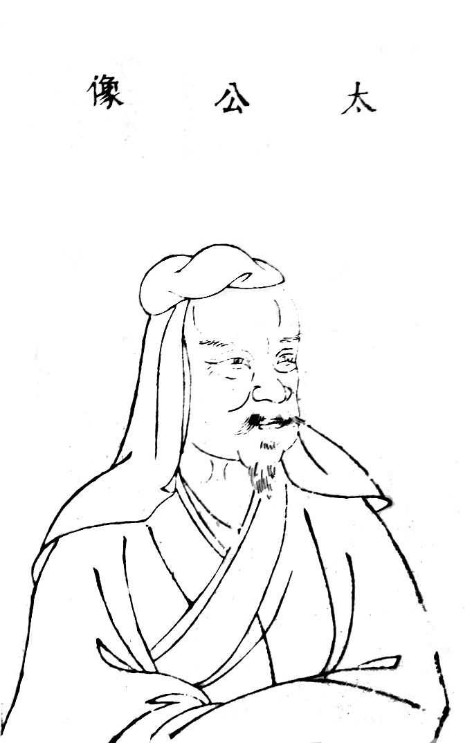 A portrait of the Jiang Ziya from Sancai Tuhui.